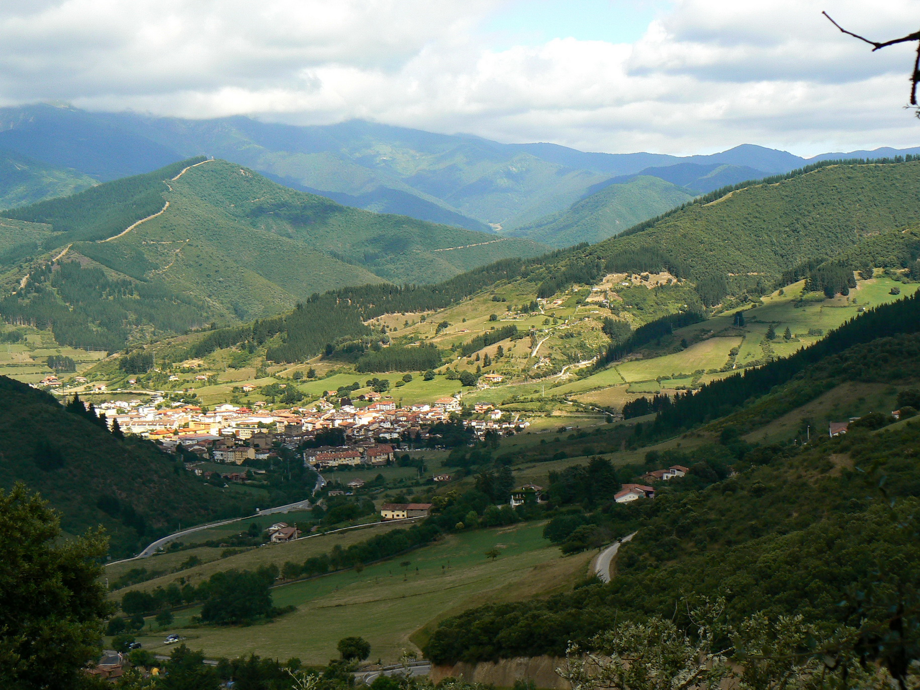 Panorama of Potes, Cantabria, Spain